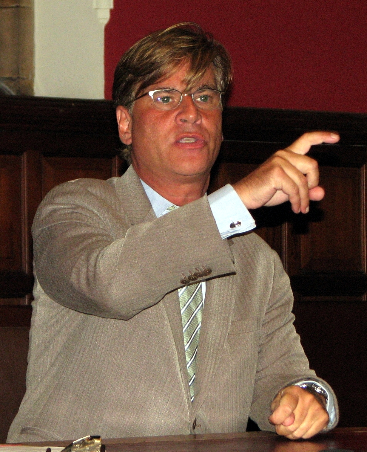 Aaron Sorkin speaking at the Oxford Union